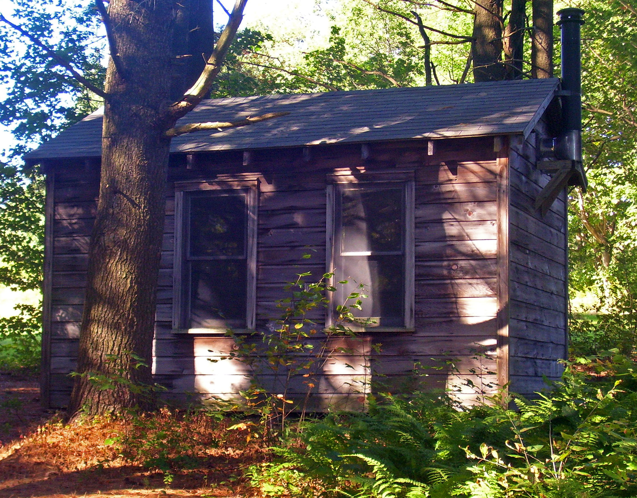 Cabin at Steepletop, Austerlitz, NY, USA, the home of poet Edna St. Vincent Millay in the later years of her life. Used by Millay as a writing studio